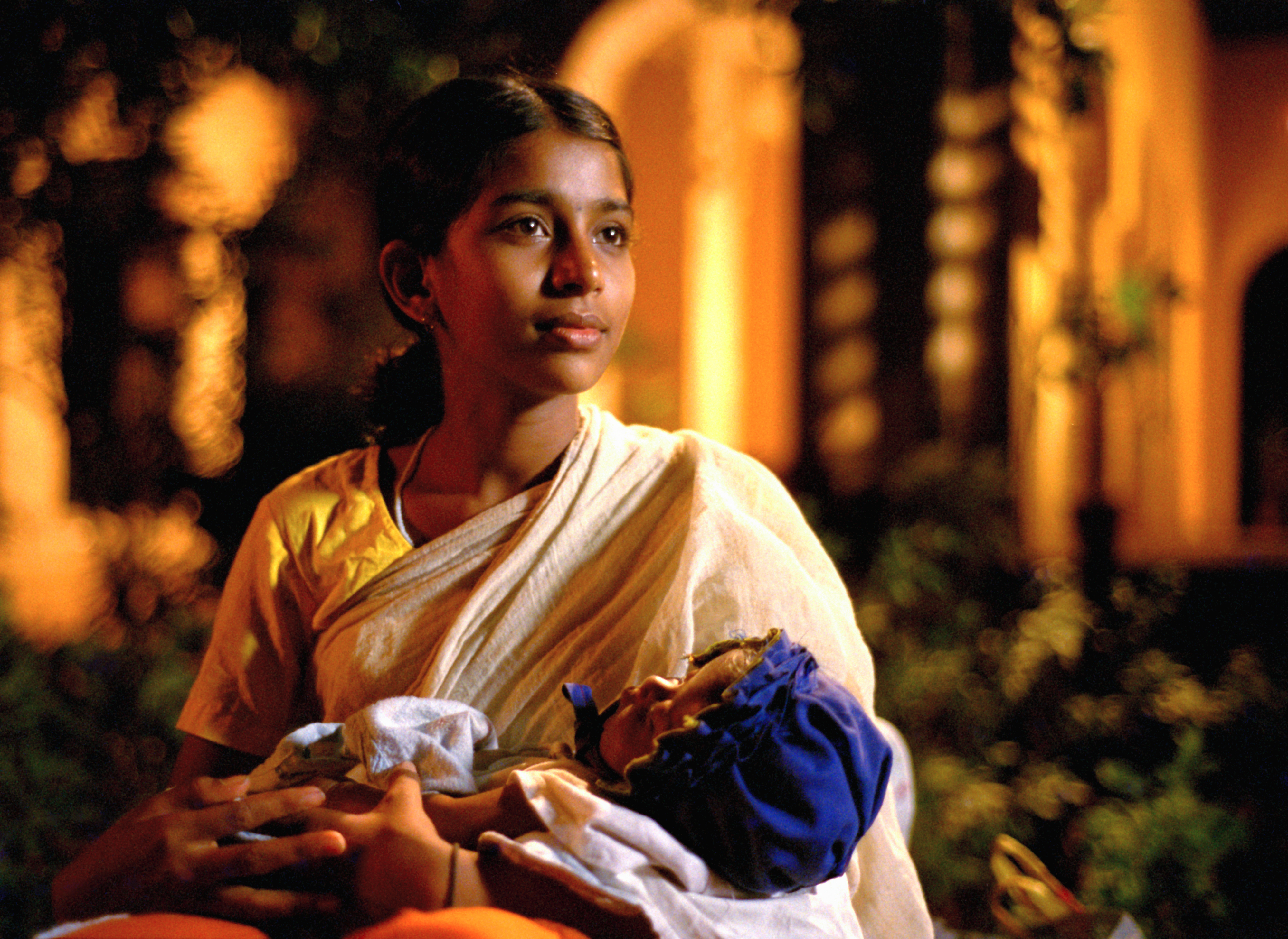 Vanaja, played by Mamatha Bhukya in the 2006 Telugu language feature film, is a servant in the house of a rich landlady. Here, she is seen with the child she bears (played by Jenima Barla) after being attacked by the landlady’s son.The film Vanaja was written, directed and edited by Rajnesh Domalpalli for his MFA Thesis at Columbia University.